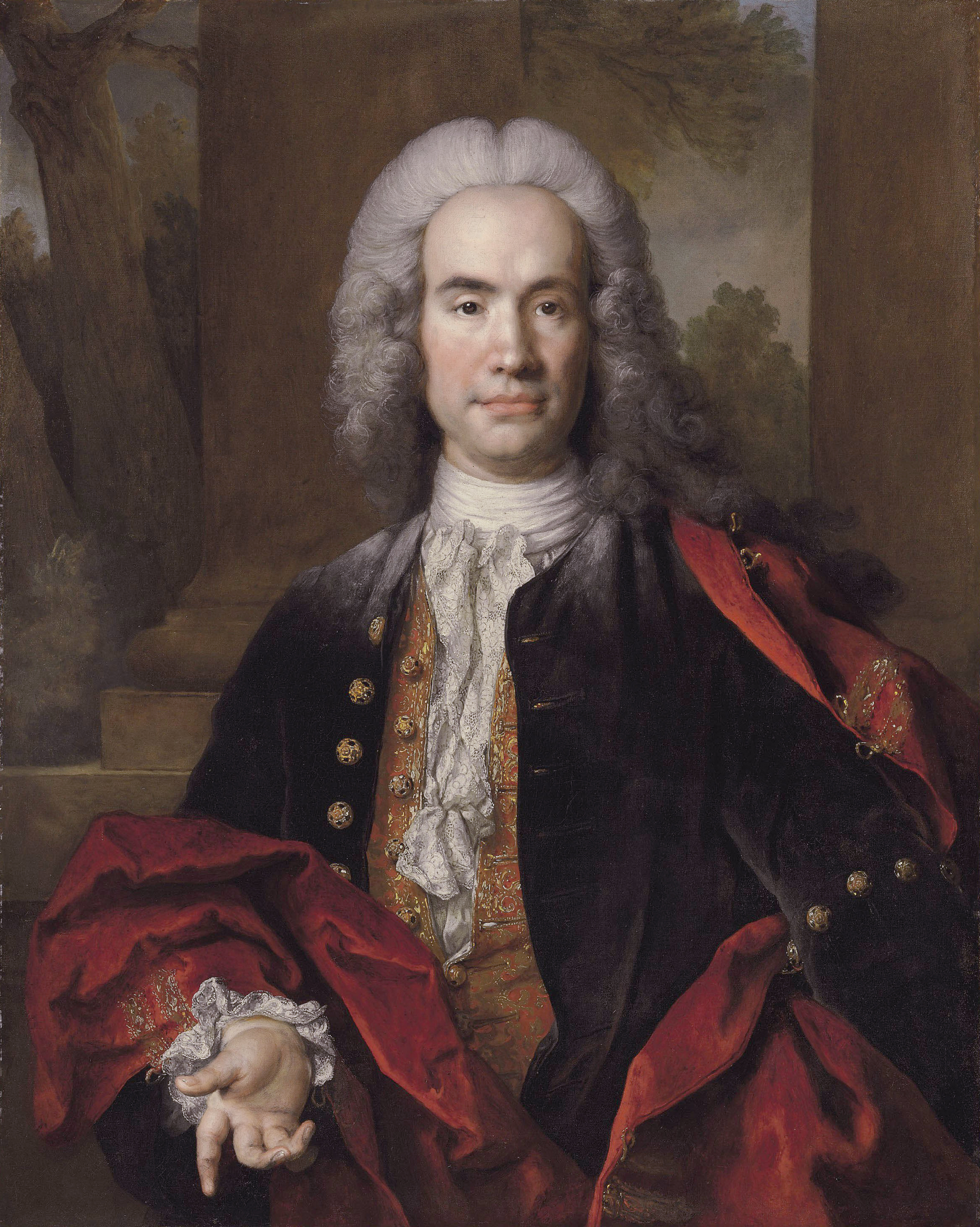 Gaspard Gédéon Pétau, Seigneur de Maulette